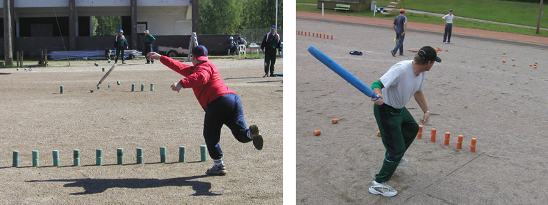 ON the right: Finnish Skittles record holder Esko Rautiainen, representing Kuopio Skittles Club, playing in a team event against Nurmes Skittles Club. On the left: Finnish Skittles record holder Veli-Pekka Juvonen.